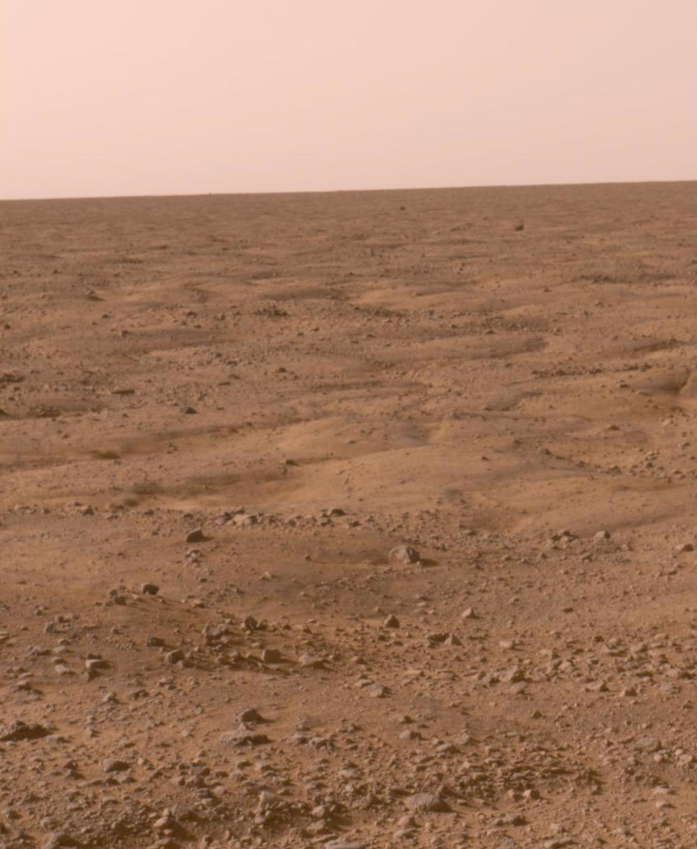 Phoenix mission horizon stitched.jpg